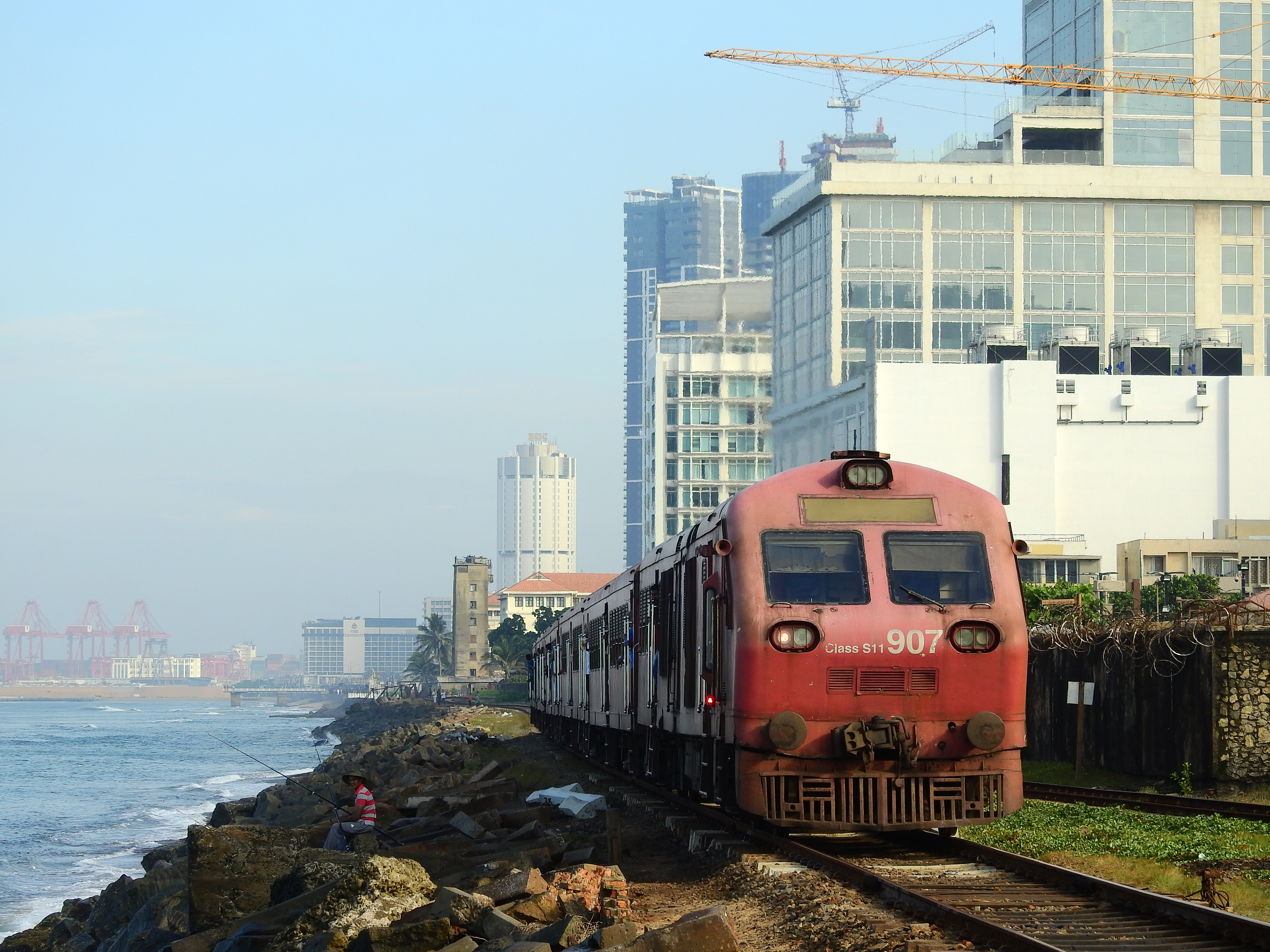 A 2-hour photowalk was conducted during the Independence Day of Sri Lanka (4 February 2019), covering the environment and events near the annual parade held at Galle Face Green. The project mostly covered the Navy and Coast Guard vessels, Air Force aircrafts, and civilian life during that morning.